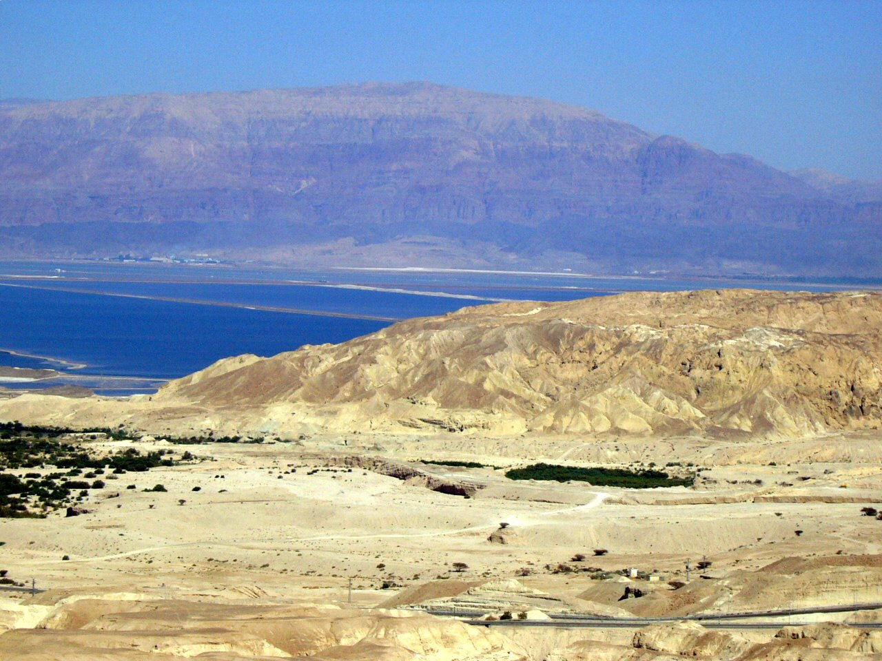 Mount Sodom, northern part. Dead sea and Mountains of Edom